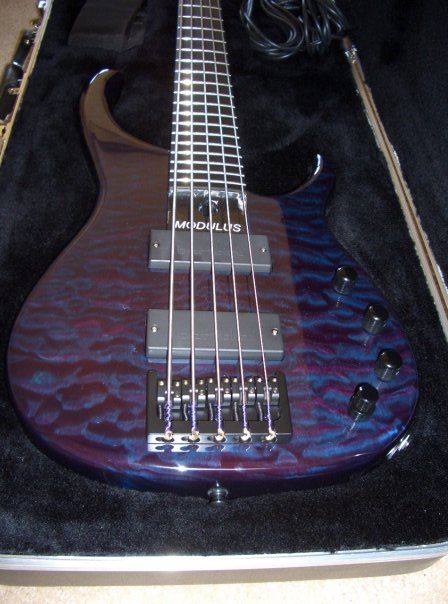 Author: Jonathan Micklos Source: My Camera Fair Use: It is also openly viewed on